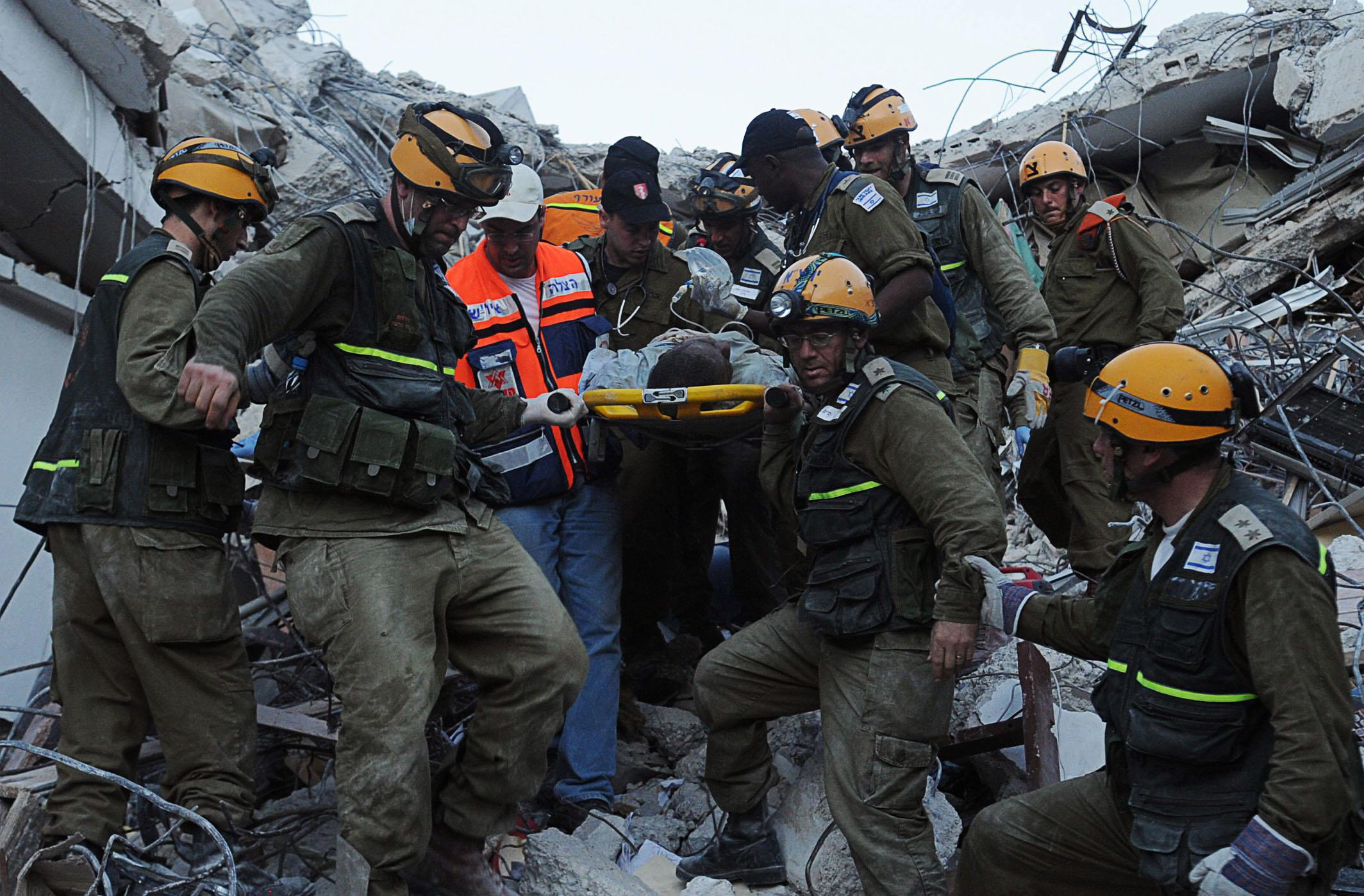 January 17, 2010. The Israel Defense Forces Search and Rescue team extracted a 52 year old Haitian government employee, trapped in the ruins of the customs office in Port-au-Prince after 6 hours of work. The man was trapped under the rubble for 125 hours before being rescued by the team and was then taken to the IDF field hospital for treatment. The man was able to communicate his location via SMS. Video footage of the rescue can be seen here: After the devastating earthquake which struck Haiti in January 2010, Israel sent an aid delegation with over 250 personnel to help with search and rescue efforts and establish a field hospital.